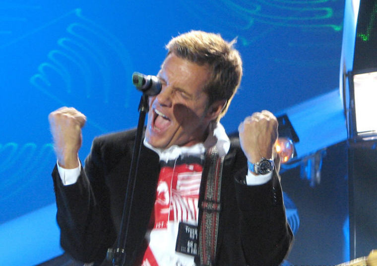 Dieter Bohlen live in Moscow 2006